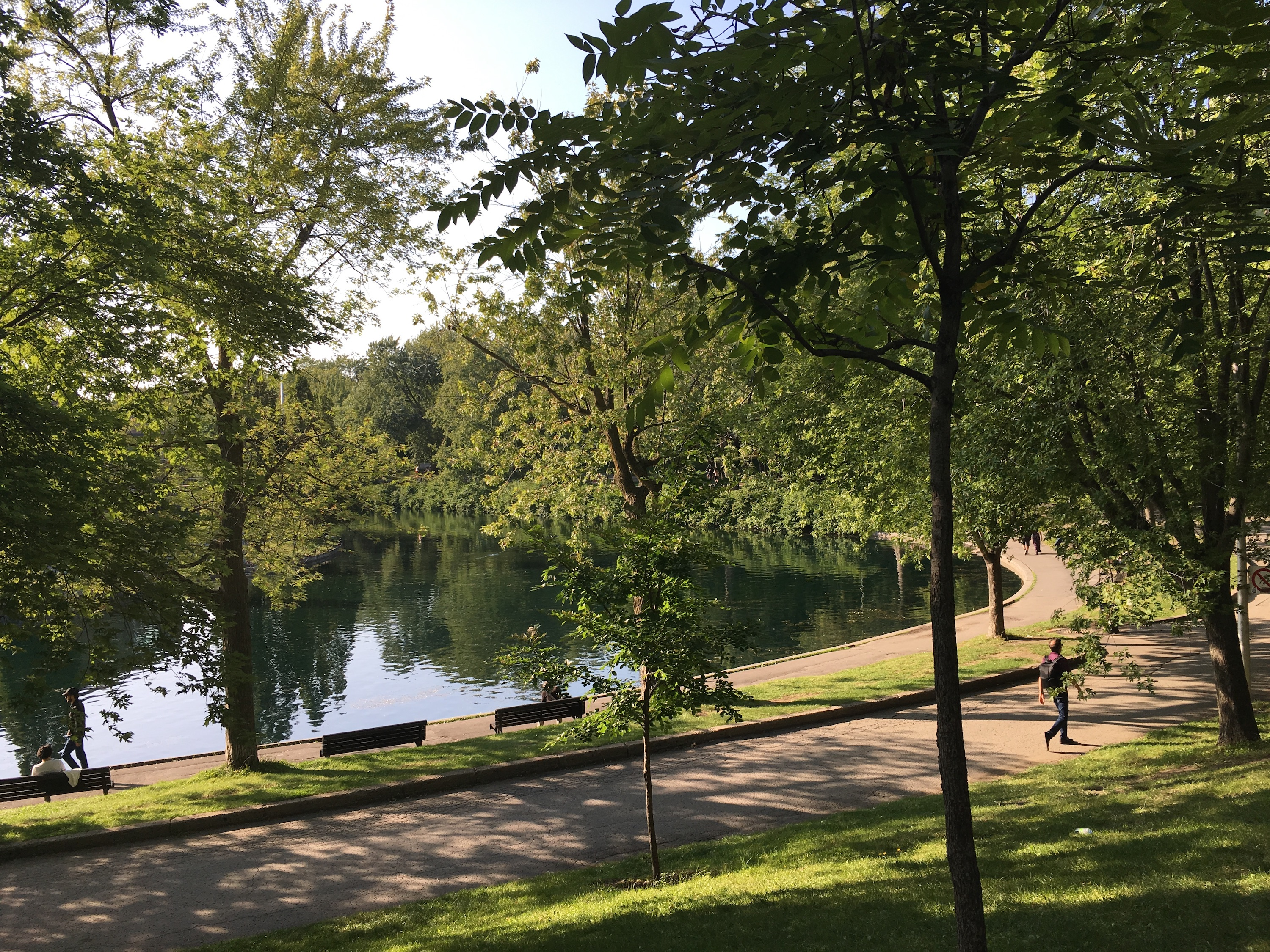 La Fontaine Park in August